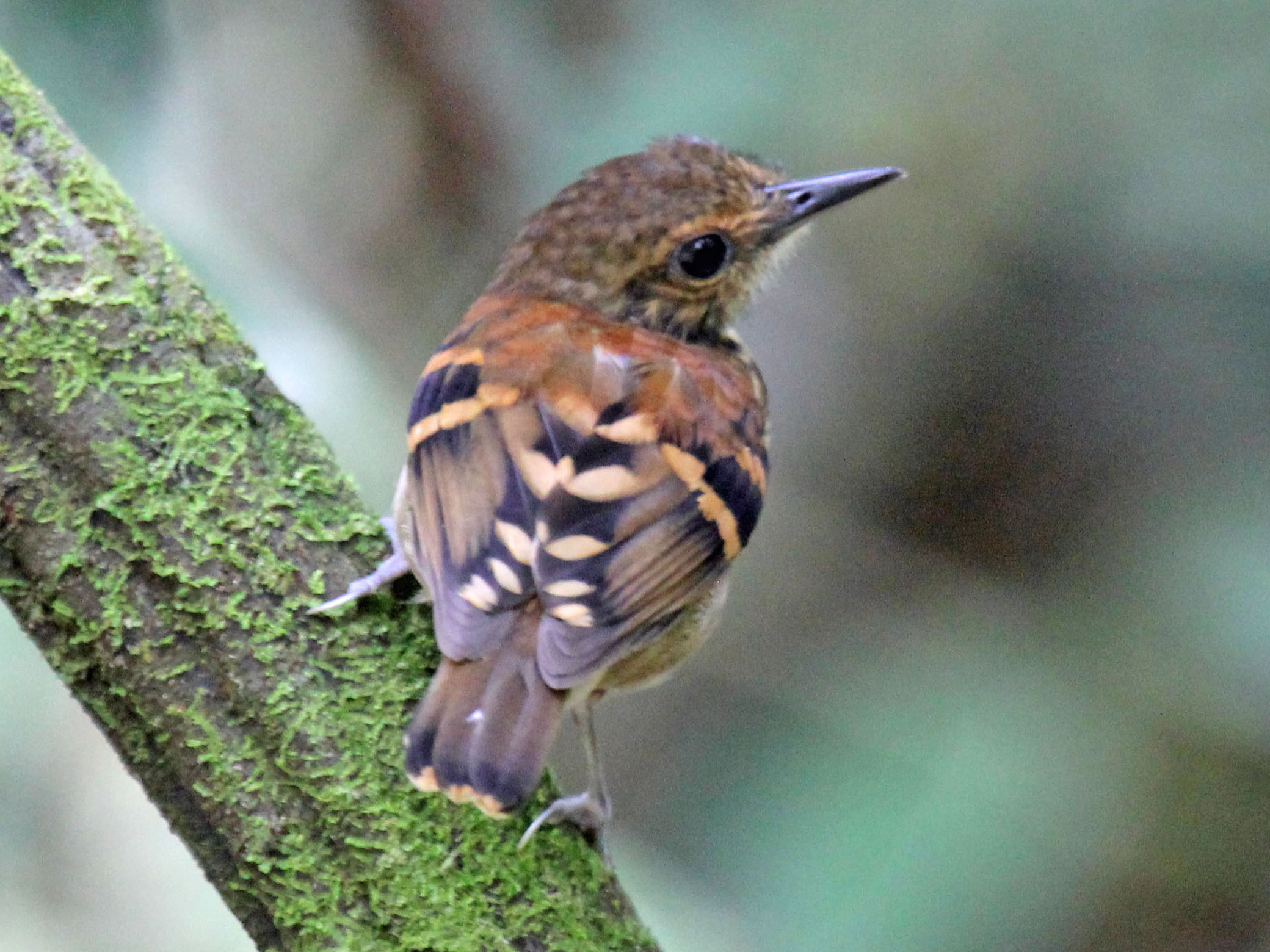 Female Spotted Antbird (Hylophylax naevioides) - Soberania National Park, Panama